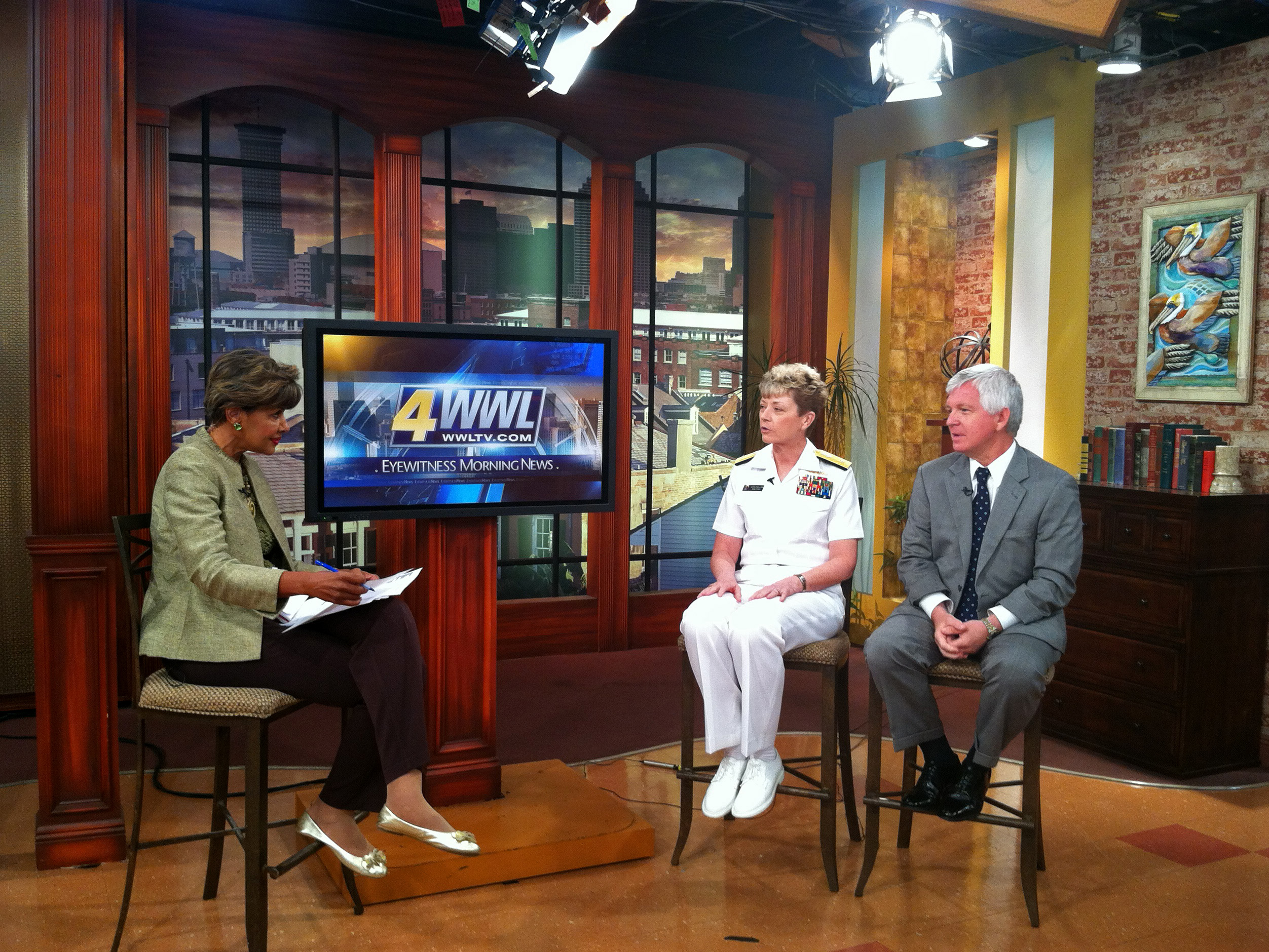 NEW ORLEANS (April 16, 2012) Rear Adm. Ann Phillips, commander of Expeditionary Strike Group (ESG) 2, center, and Mark Romig from the New Orleans Host Committee are interviewed by WWL-TV anchorwoman Sally-Ann Roberts before the start of The War of 1812 Bicentennial Commemoration in New Orleans. The celebration is part of a series of city visits by the Navy, Coast Guard, Marine Corps and Operation Sail beginning in April 2012 and concluding in 2015. New Orleans is the first and the last city visit in the series. (U.S. Navy photo by Lt. Cmdr. Candice Tresch/Released) 120416-N-RA063-001 navylive.dodlive.mil